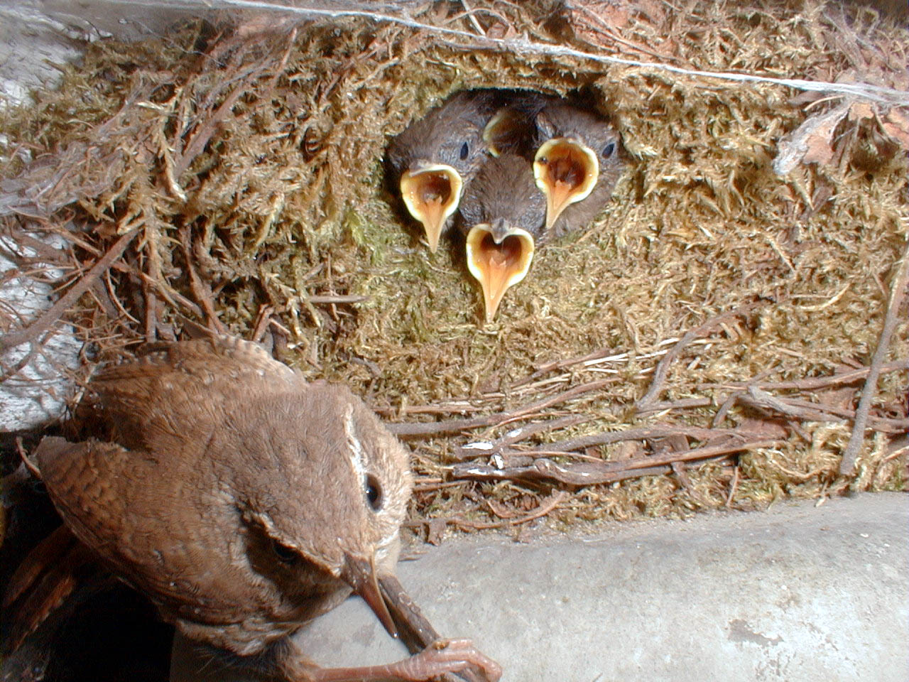 Troglodytes troglodytes, adult with hatchlings, picture taken on July 18th, 2001 in Bensheim (Germany) with flash light